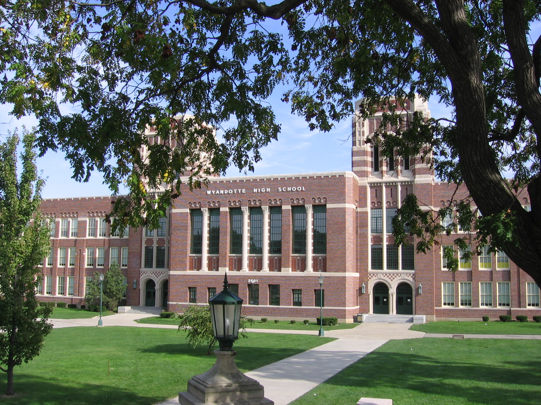 Front of Wyandotte High School, located at 2500 Minnesota Avenue in Kansas City, Kansas, United States. Built in 1936, the high school is listed on the National Register of Historic Places.